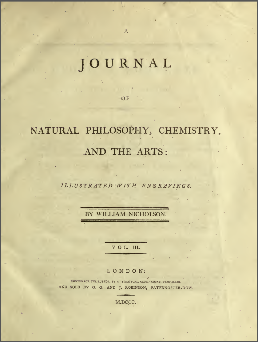 Title page of combined 1799-1800 volume of the Journal of Natural Philosophy, Chemistry, and the Arts